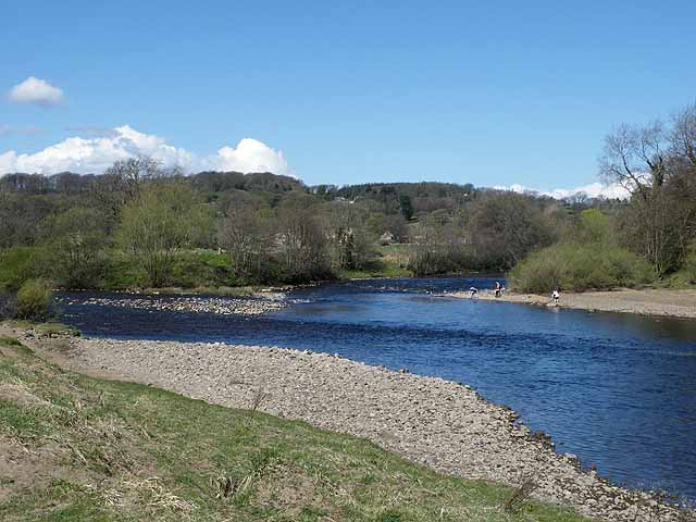 Watersmeet The confluence of the North Tyne (straight ahead) and South Tyne (to left), seen from the right bank of the river immediately below the confluence.